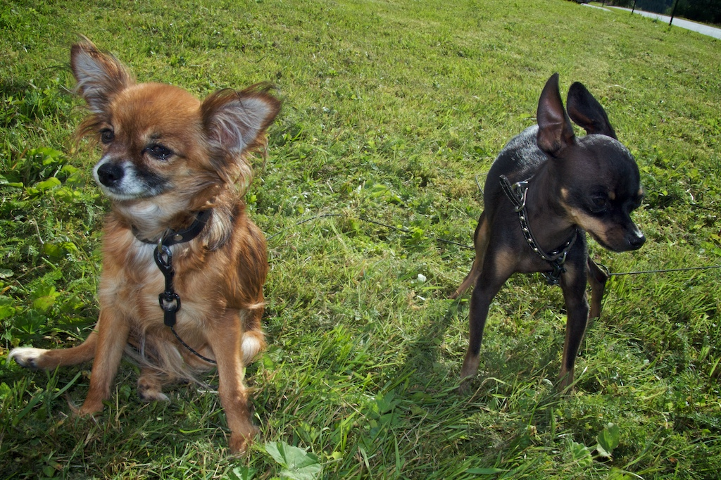 Two Russian Toy Terriers, one shorthaired and one longhaired.